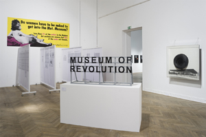 Exhibition Beziehungsarbeit_Installation Shot_© Künstlerhaus